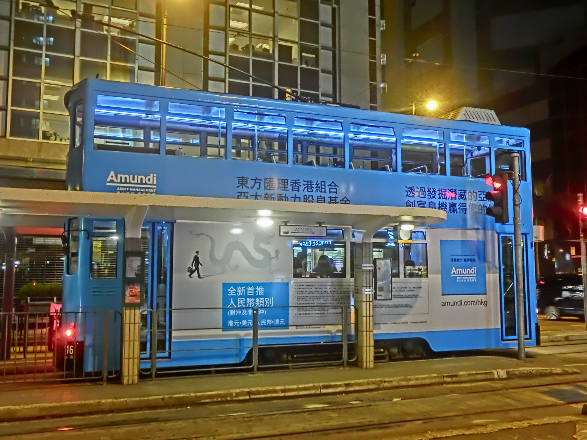 Night in 上環 (Sheung Wan), Hong Kong